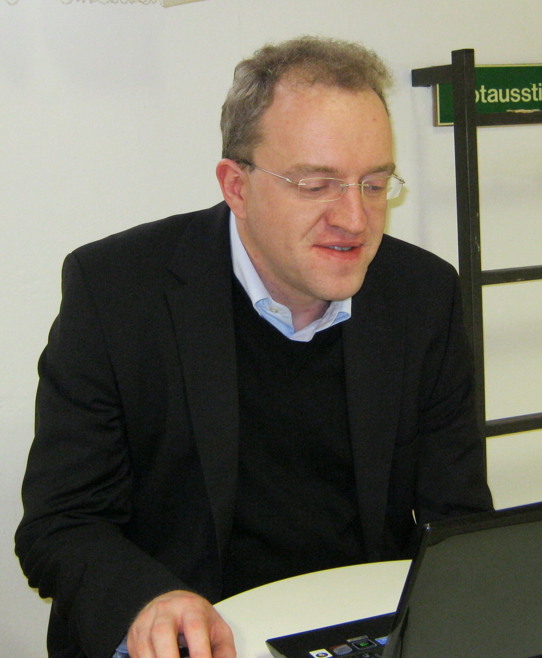 Sven Noppes, German chess organizer